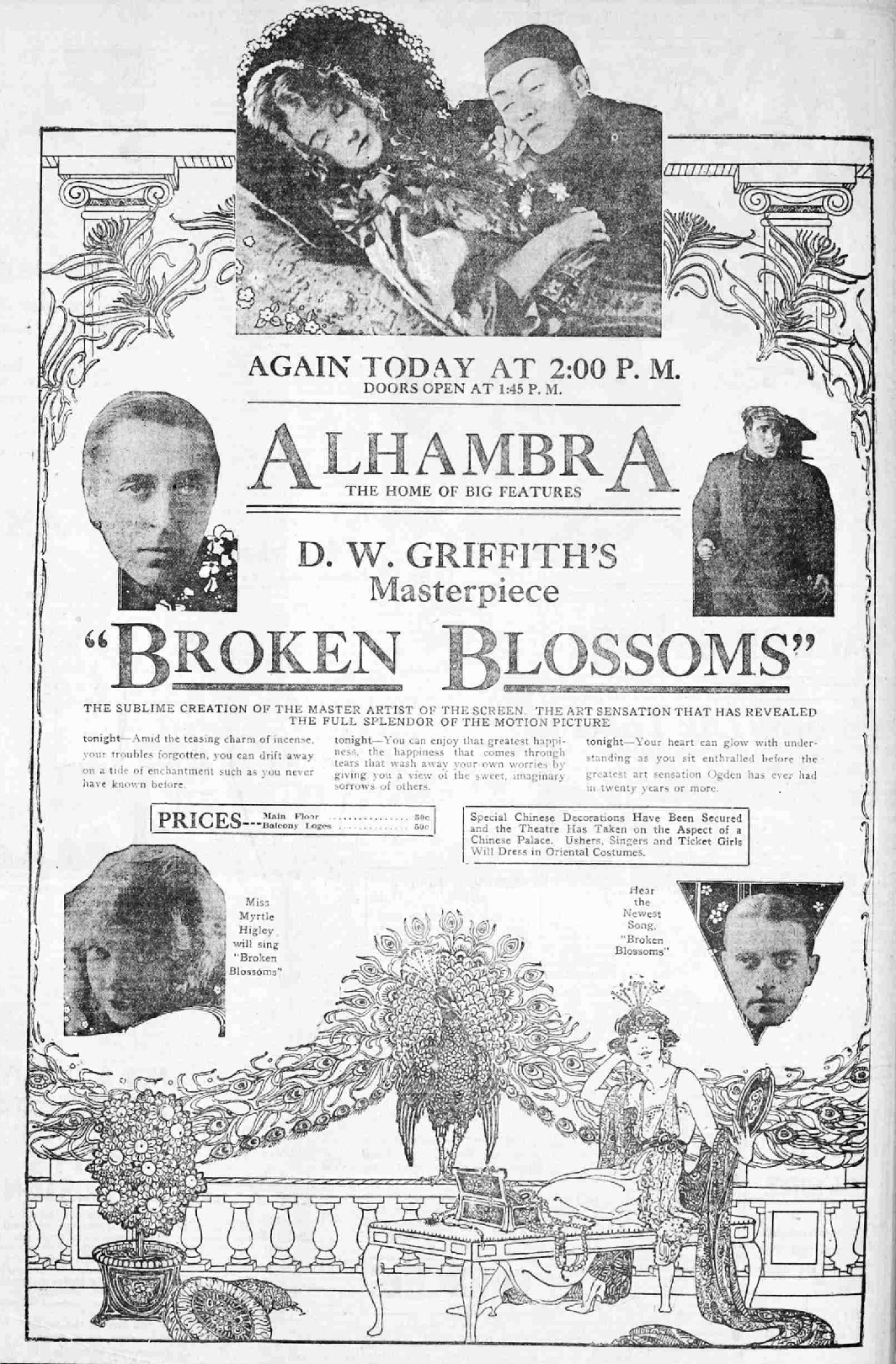 Almost full-page ad for the film "Broken Blossoms".